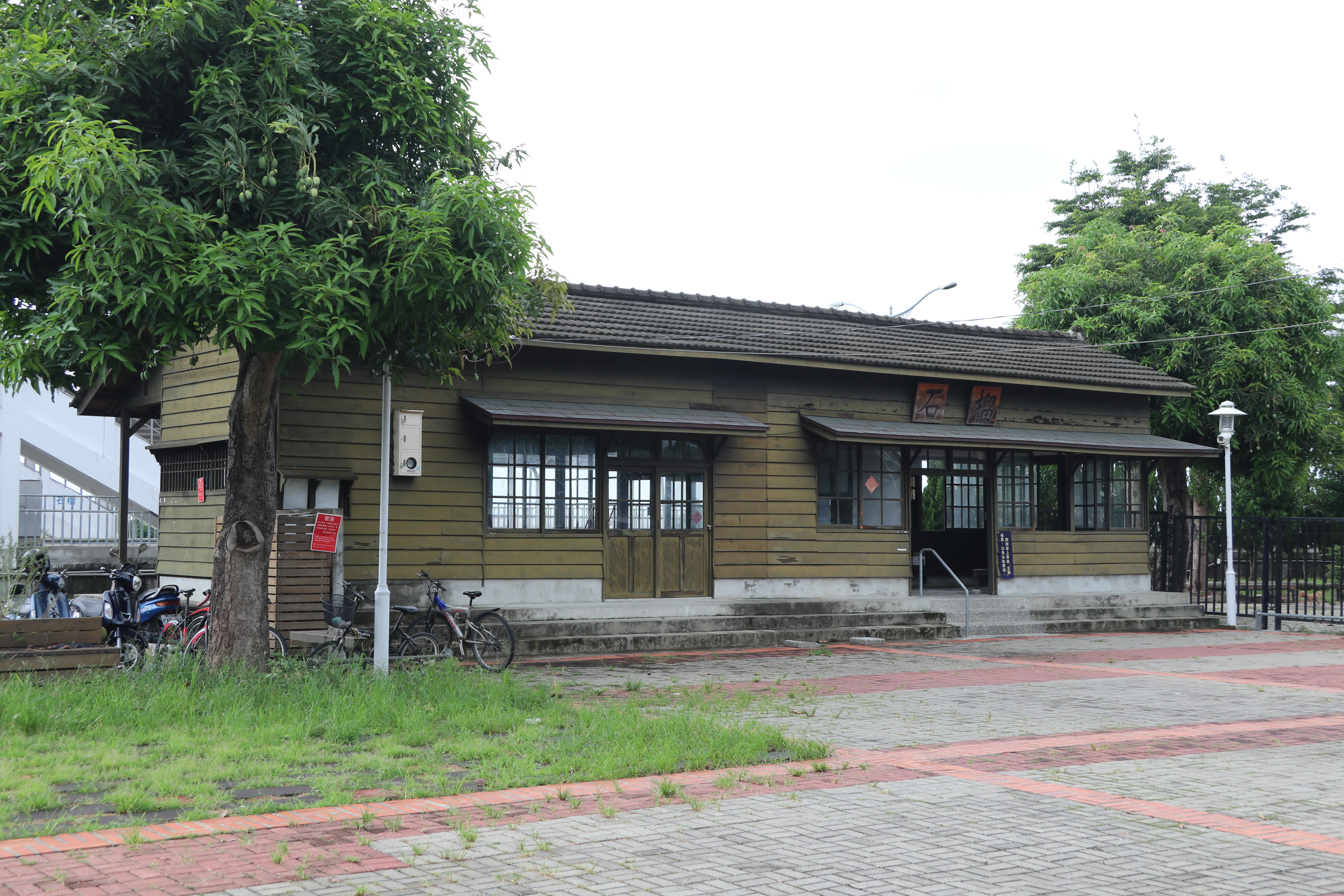 Front entrance to Shiliu railway station in Douliu, Yunlin County, Taiwan. Taken from the plaza in front of the station.